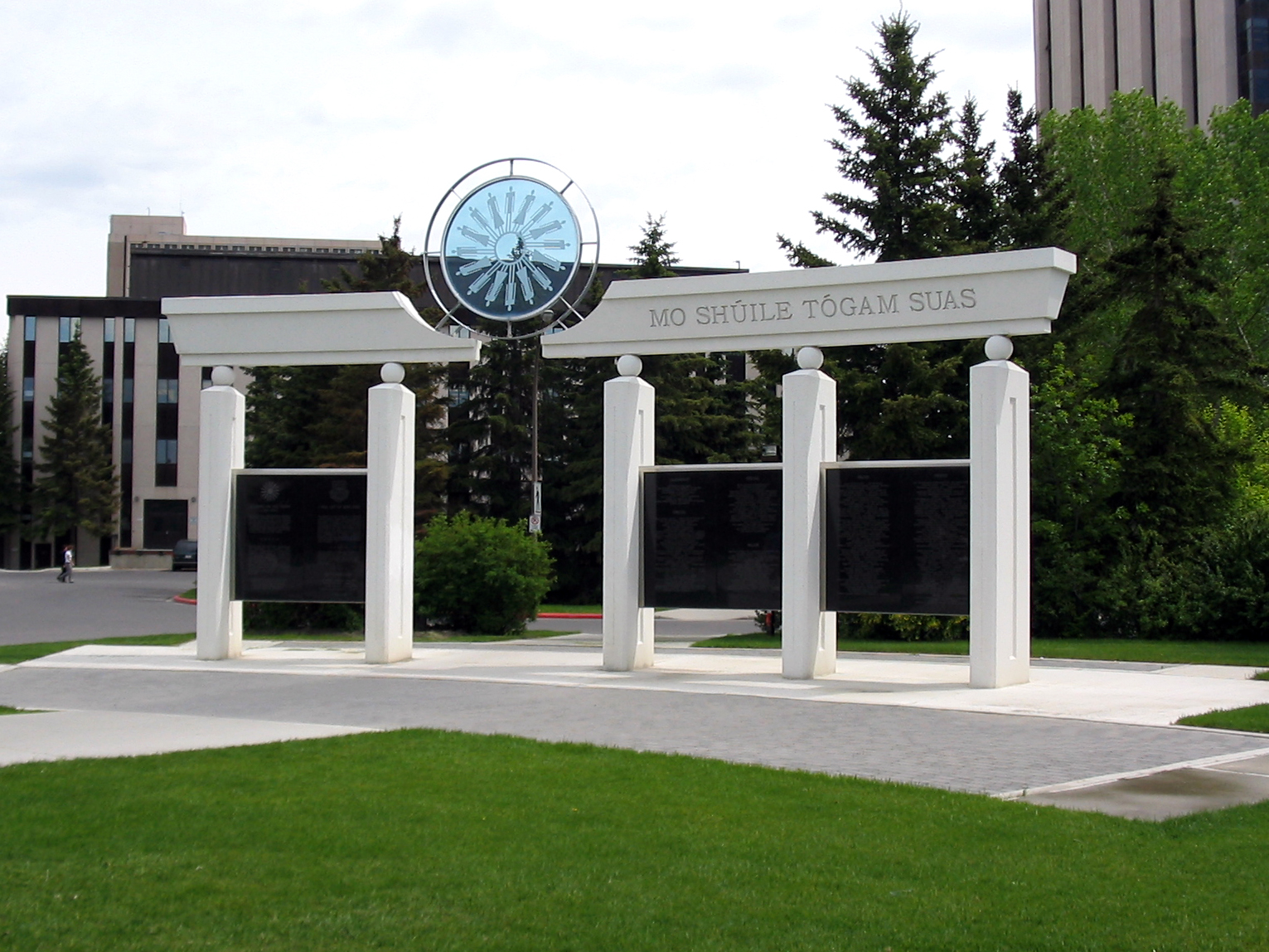 University of Calgary Campus